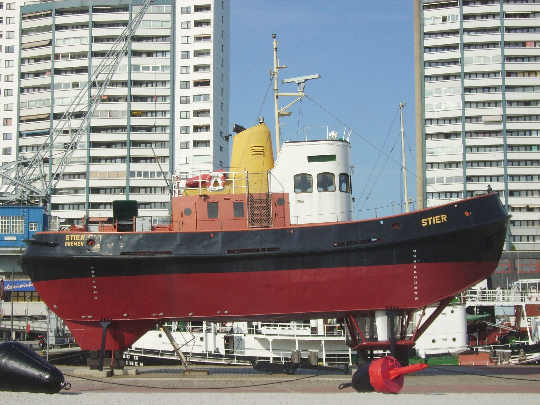 The tugboat "Stier", now a museum ship, near the Old Port of Bremerhaven, Germany